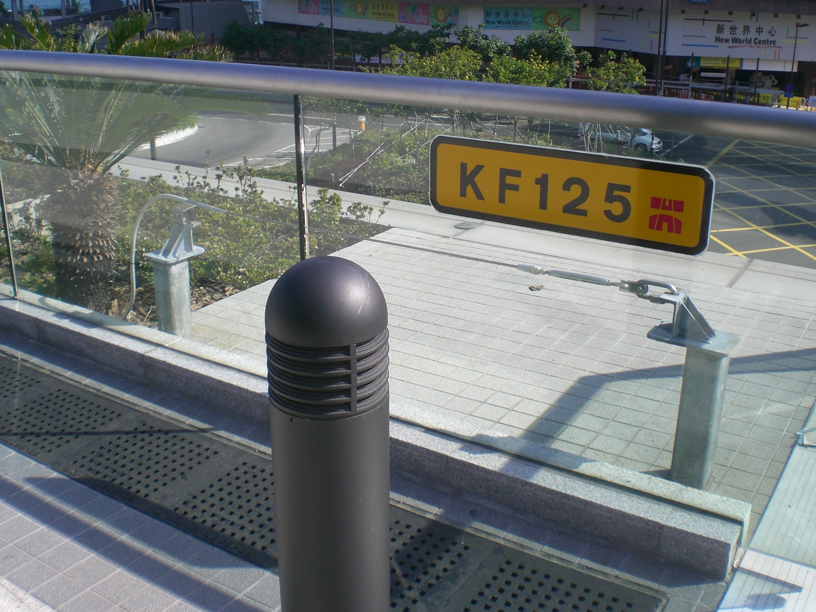 尖沙咀東海濱平台花園望zh:鯉魚門海峽